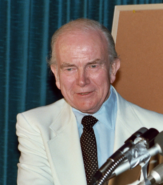 "Terry and the Pirates" creator Milton Caniff (1907-1988) accepting an Inkpot Award from Shel Dorf at the 1982 San Diego Comic Con (today called Comic-Con International).